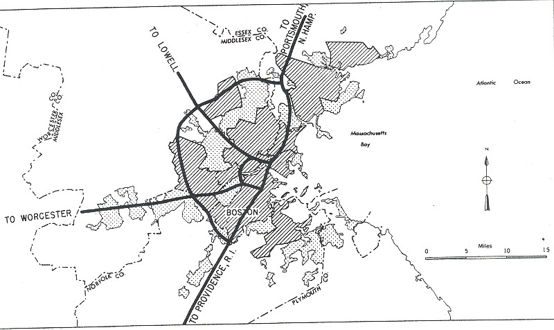 City of Boston, Massachusetts from the 1955 "Yellow Book" of Interstate Highway System plans. These roughly correspond to modern I-90 (to Worcester), I-95/MA-128 (outer loop), MA-3 (to Lowell; never built inside 95), and I-93 (northern expressway inside I-95), plus the never-built I-695 inner loop and I-95 southwest expressway.